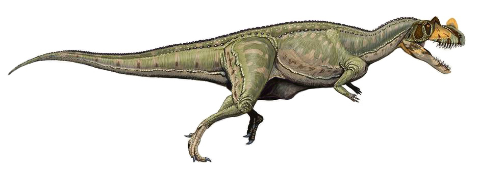 Ceratosaurus_nasicornis reconstruction. Matches proportions shown in Gregory S. Paul (The Princeton Field Guide to Dinosaurs, 2010, p. 84)